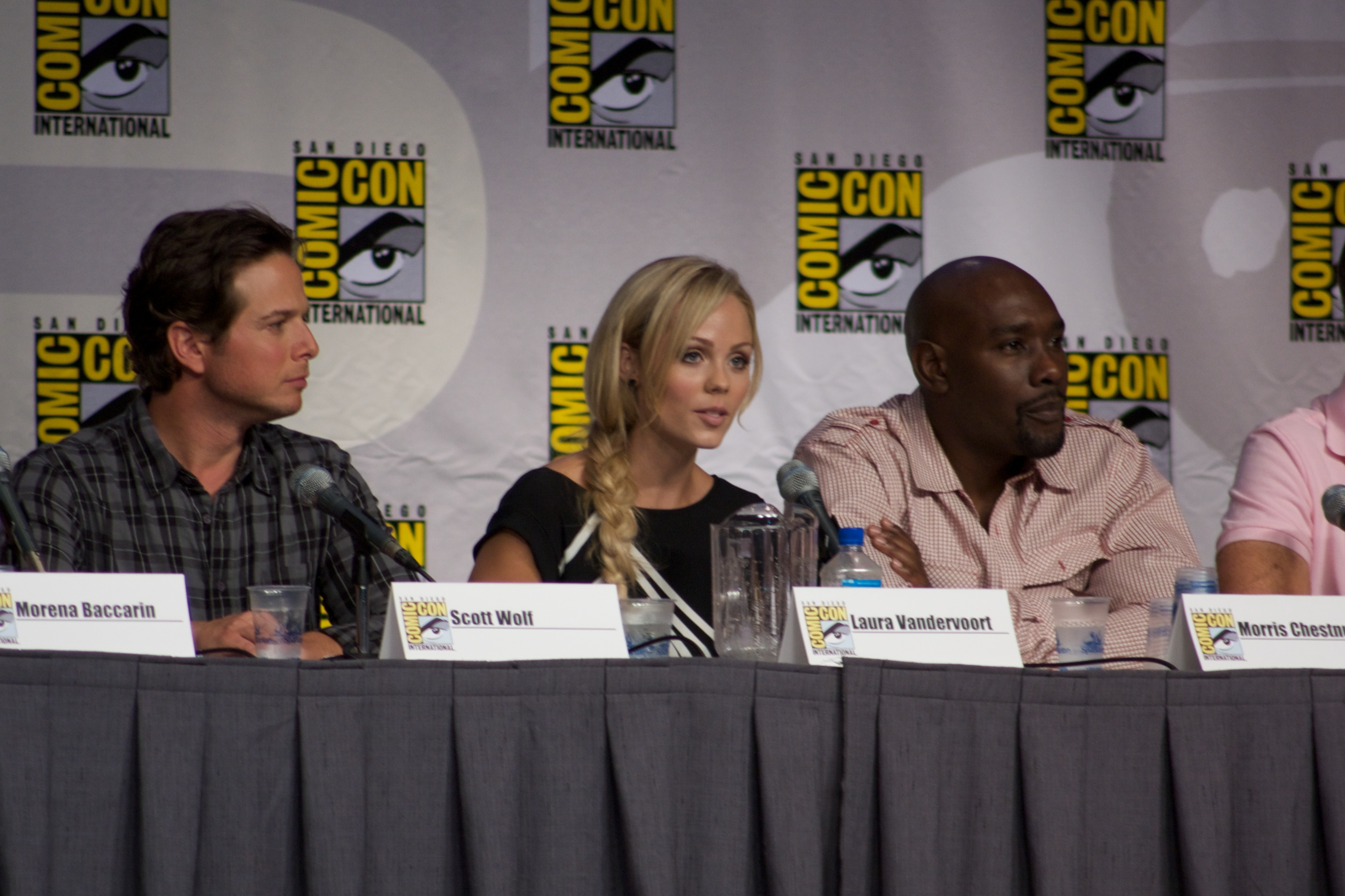 "V" Panel. Actors Scott Wolf, Laura Vandervoort, and Morris Chestnut at San Diego 2010 Comic-Con International.